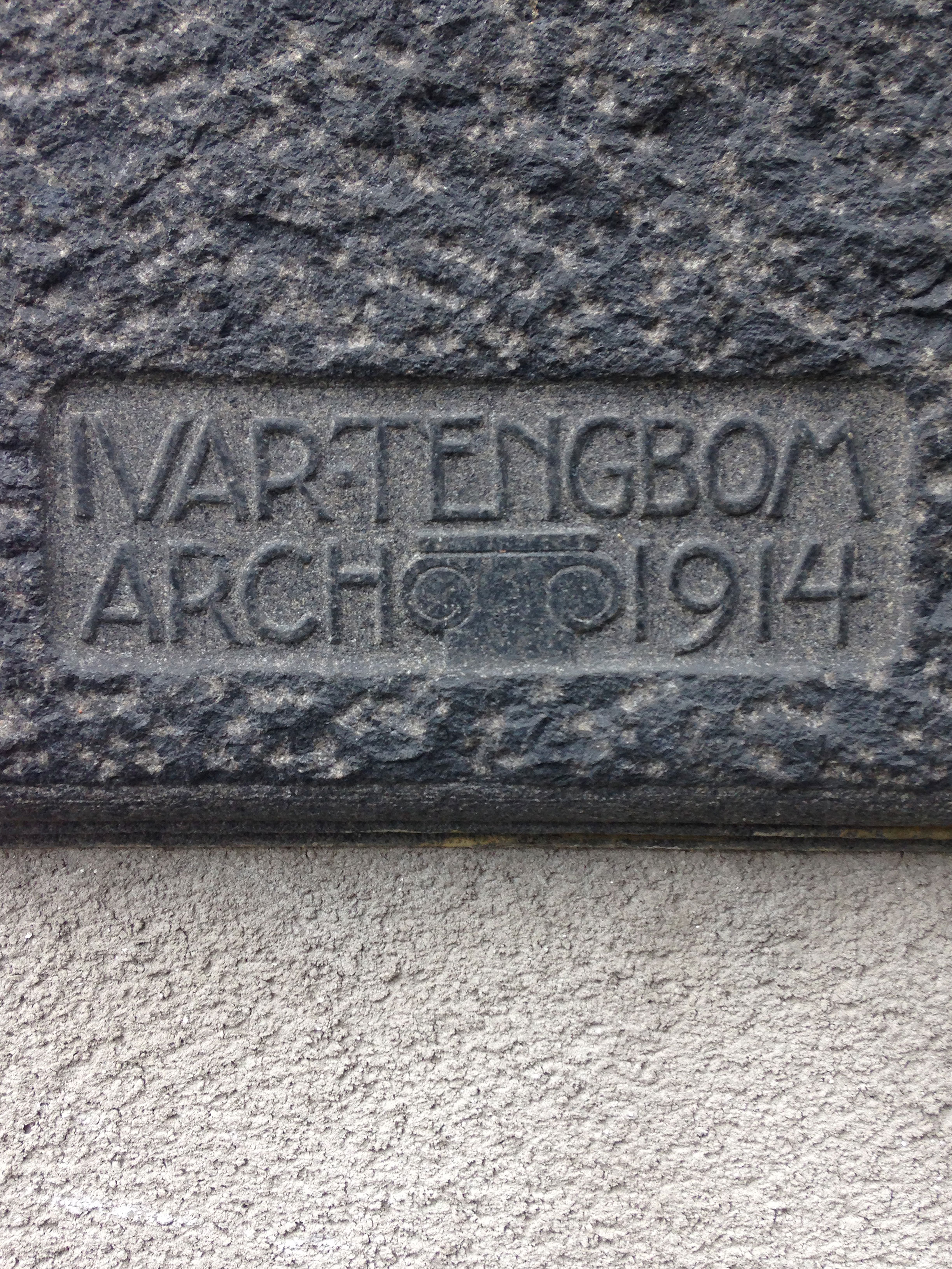 Architect Ivar Tengbom signature at Kungsträdgårdsgatan 10 in Stockholm, 2014